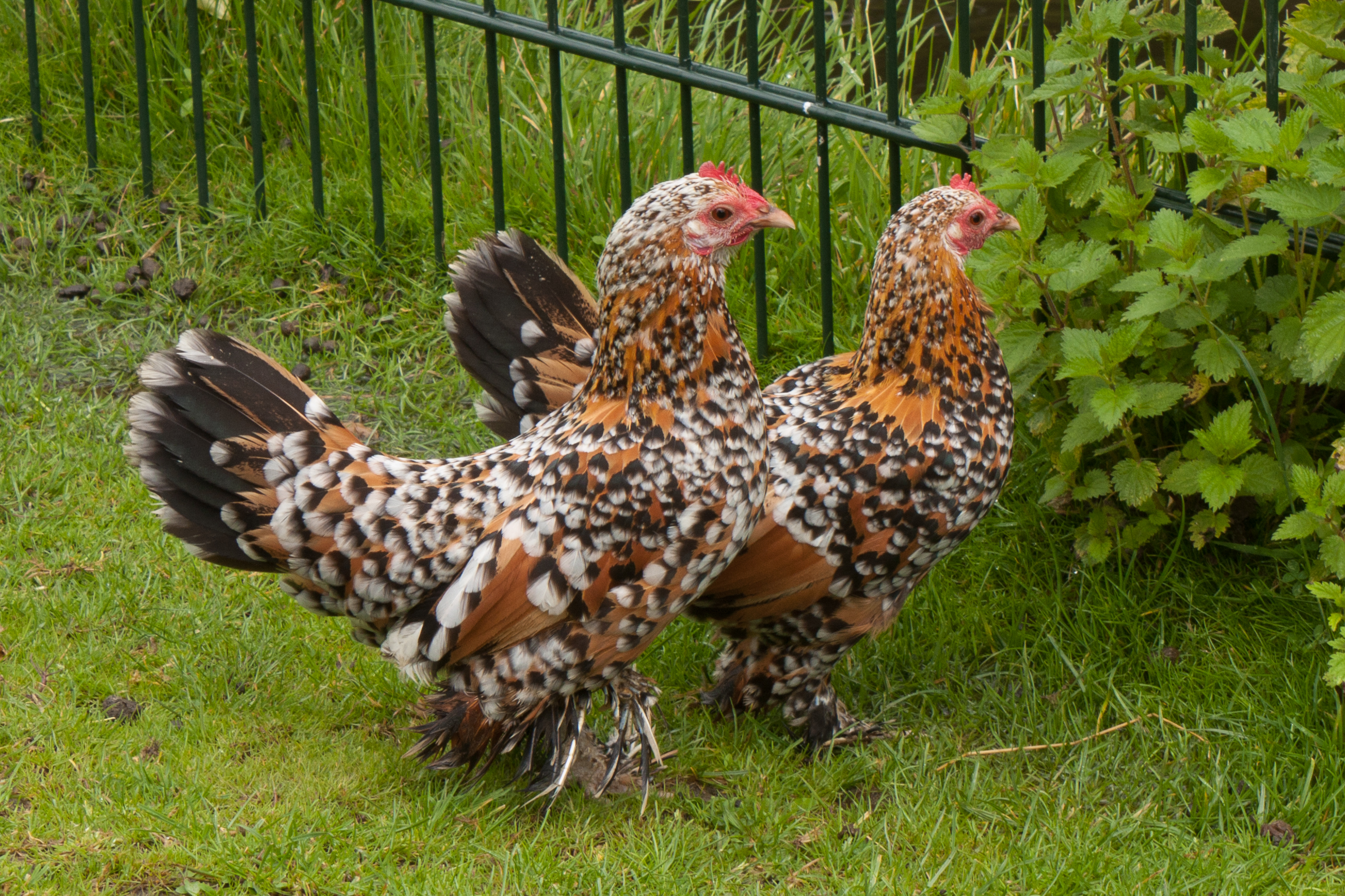 Two Booted Bantams at a peting zoo (De Waterster), in The Hague, Netherlands.